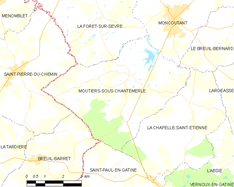 Map of French municipality Moutiers-sous-Chantemerle